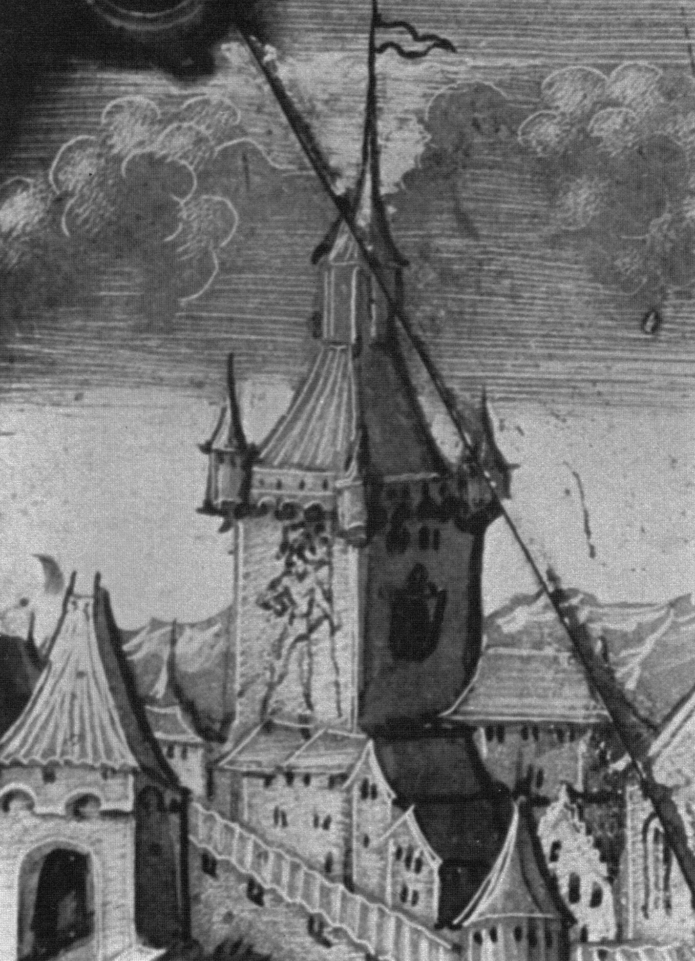 The Zytglogge tower in Bern, Switzerland, as depicted on a 1542 painting in Hollingen castle.